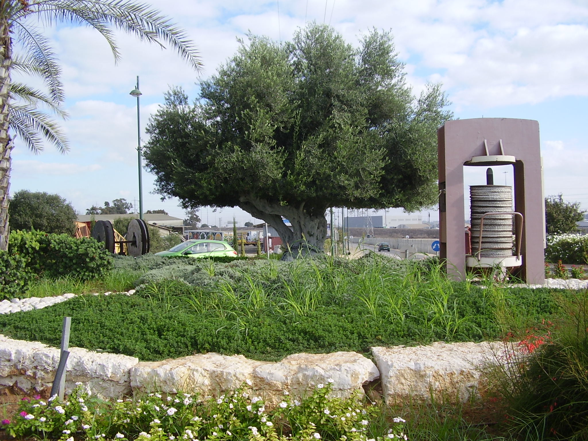 entrance to bnei darom